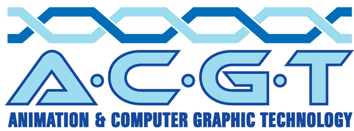 Logo of anime production company A.C.G.T, Inc.